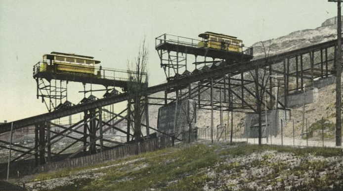 Two Cincinnati trolleys are carried by an incline (inclined railway) to the top of a hill. The postcard had "The way the Electrics go up hill in Cincinnati" written on it.